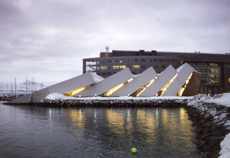 View of the Museum Polaria in Tromso, taken by User:Bo-deh.